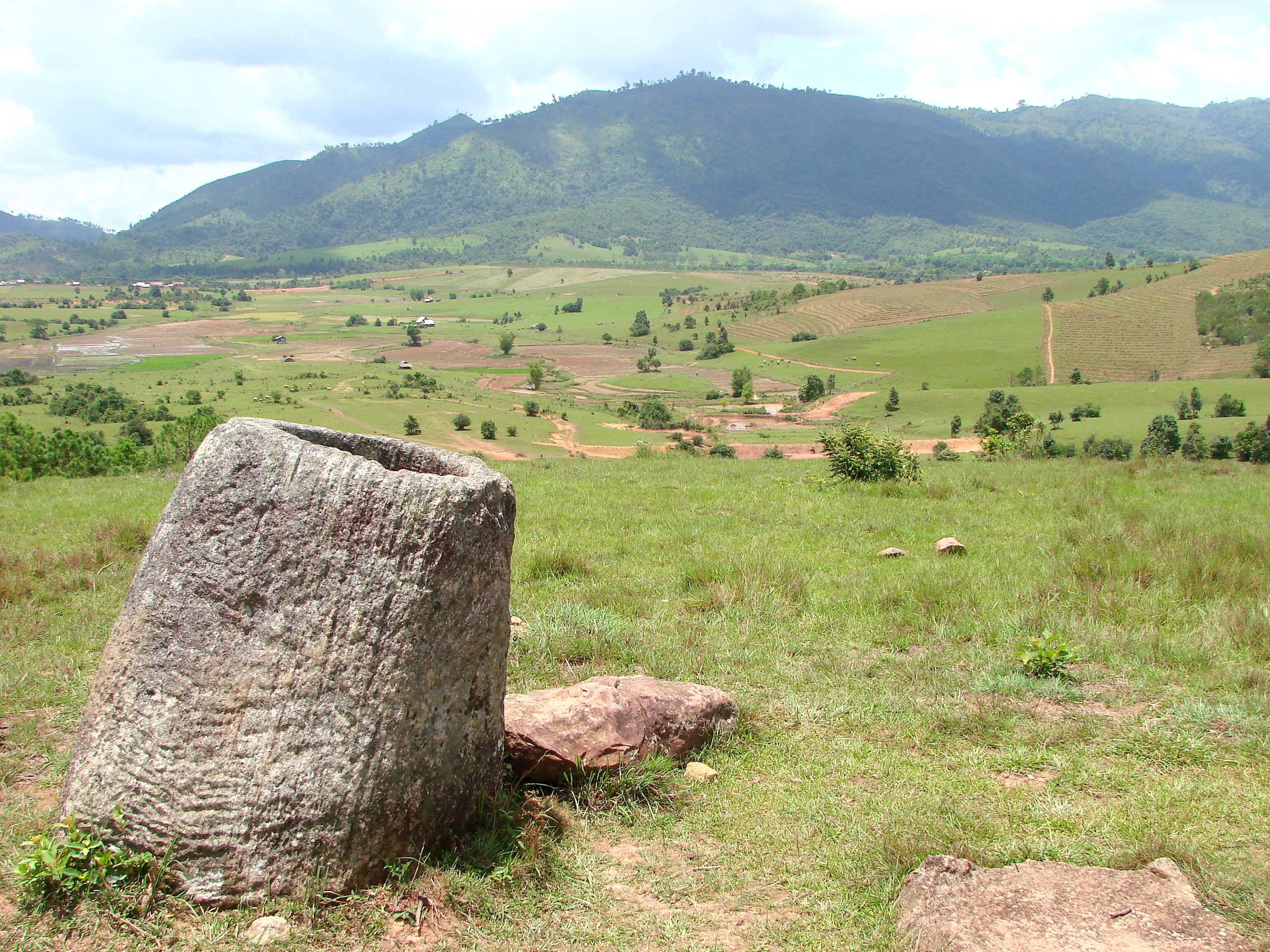 The Plain of Jars near Phonsavanh, Laos. June 2009.